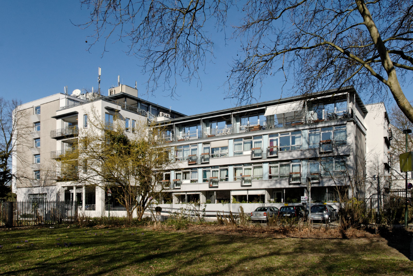 House Nelly-Sachs-Straße 5 in Düsseldorf-Stockum, Germany